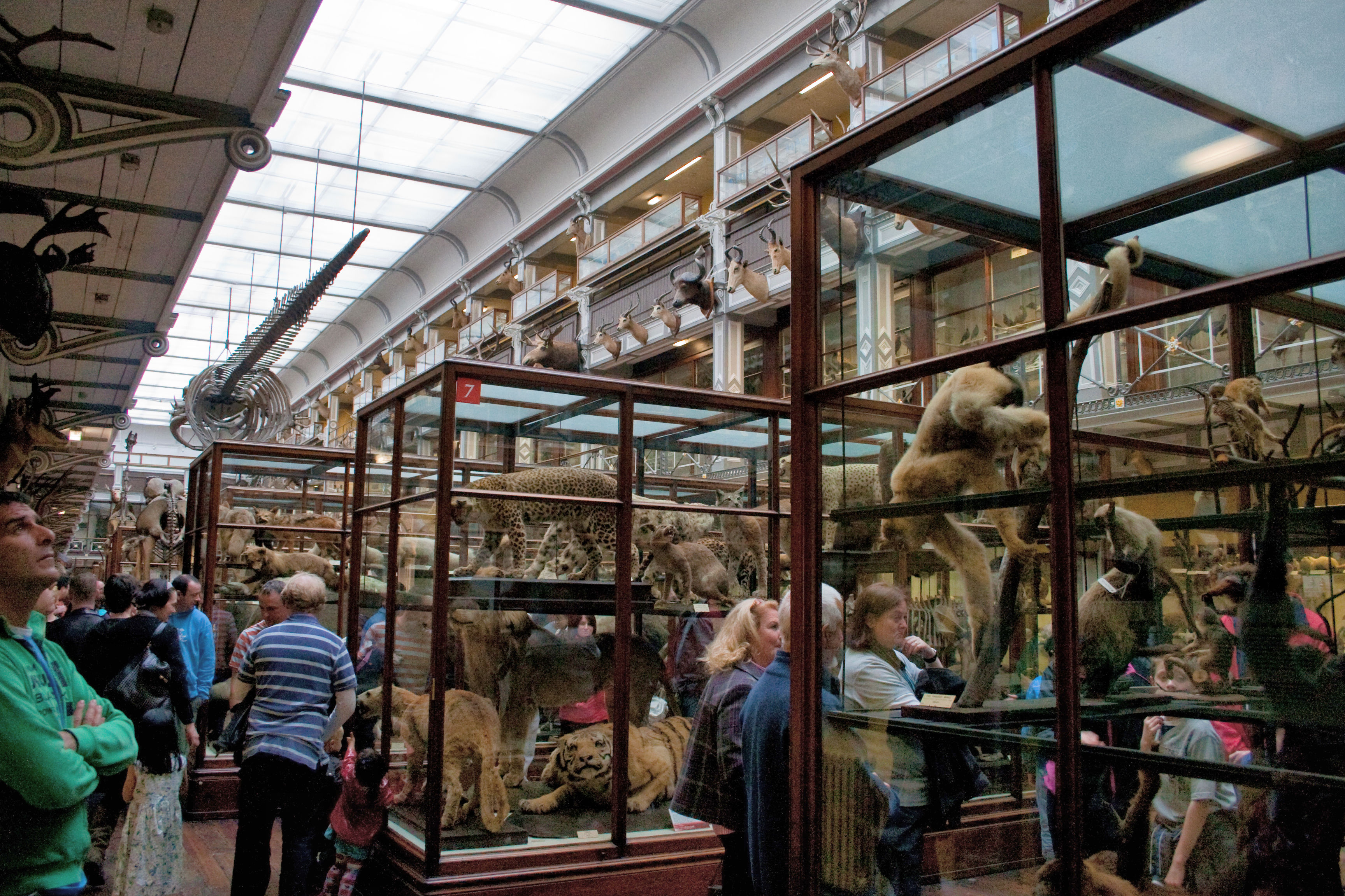 Interior of the Irish Natural History Museum in the Merrion Street